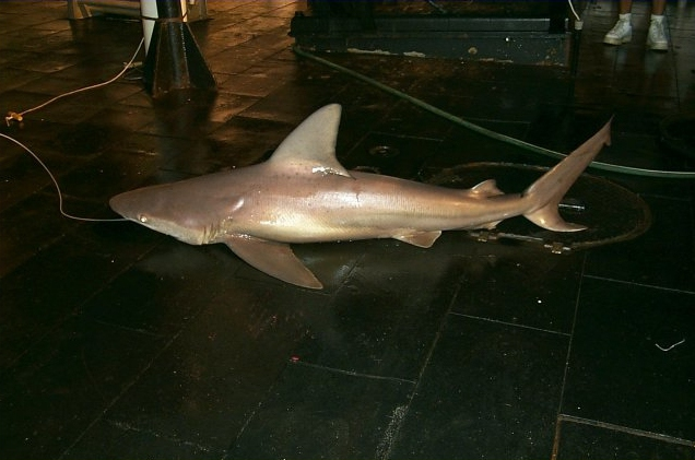 Sandbar shark. Gulf of Mexico.